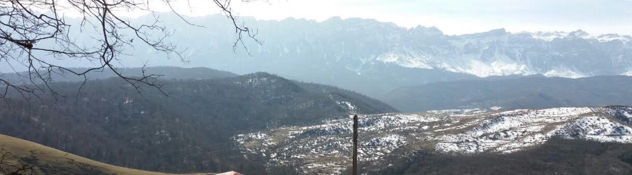 Beautiful view of Alborz Mountain Range from Valik Chal